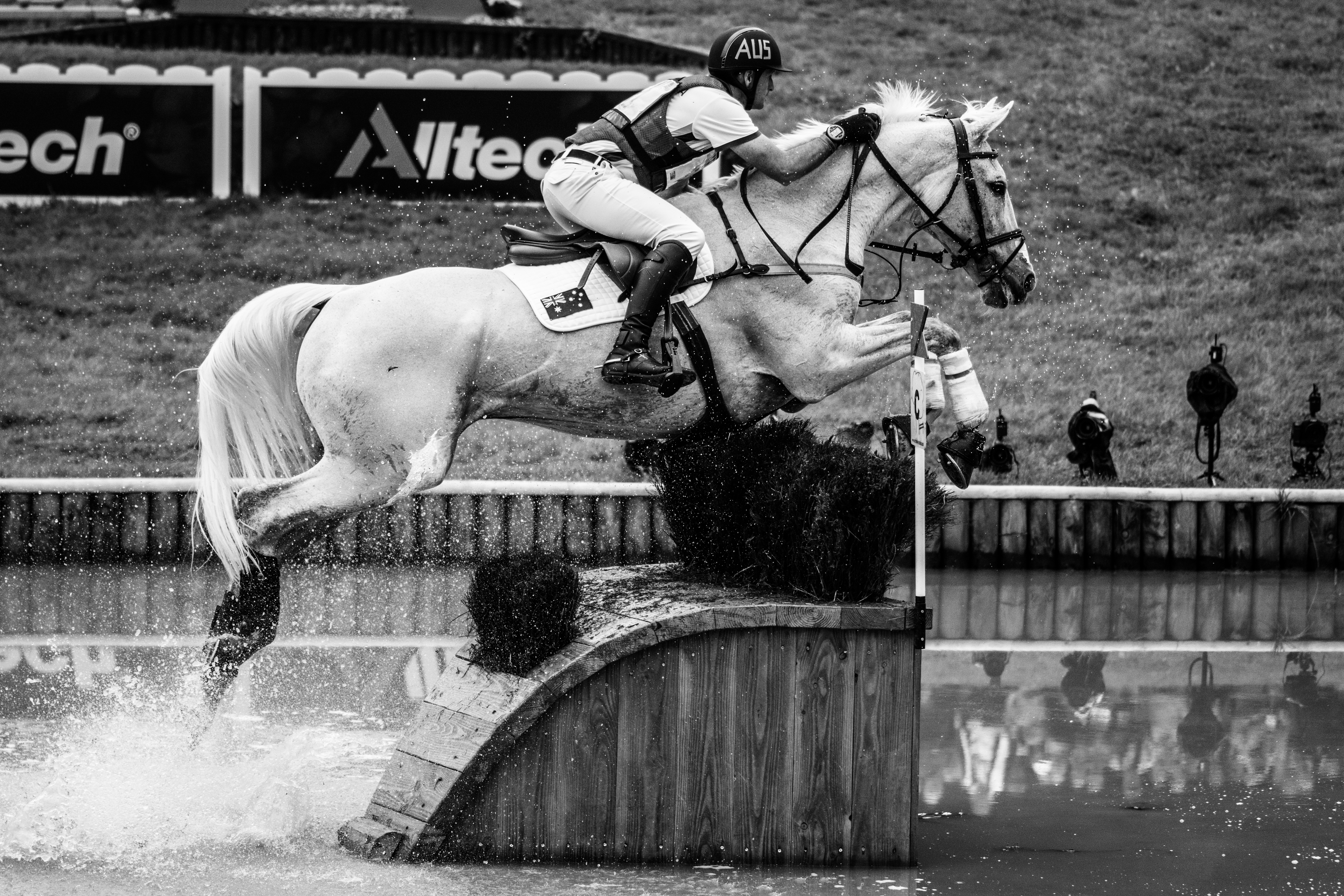 Stuart TINNEY (AUS) - PLUTO MIO, HIGH AllTech FEI World equestrian games 2014 in Normandy - Cross-country phase of Eventing at Haras du Pin